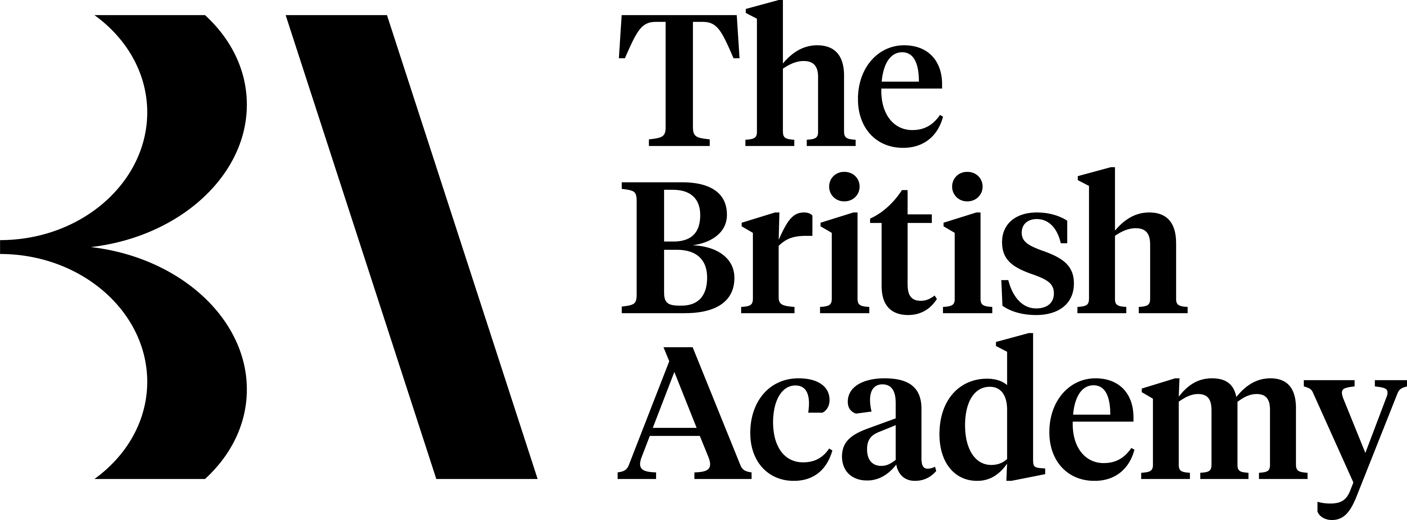 The British Academy's new logo, unveiled in September 2018.